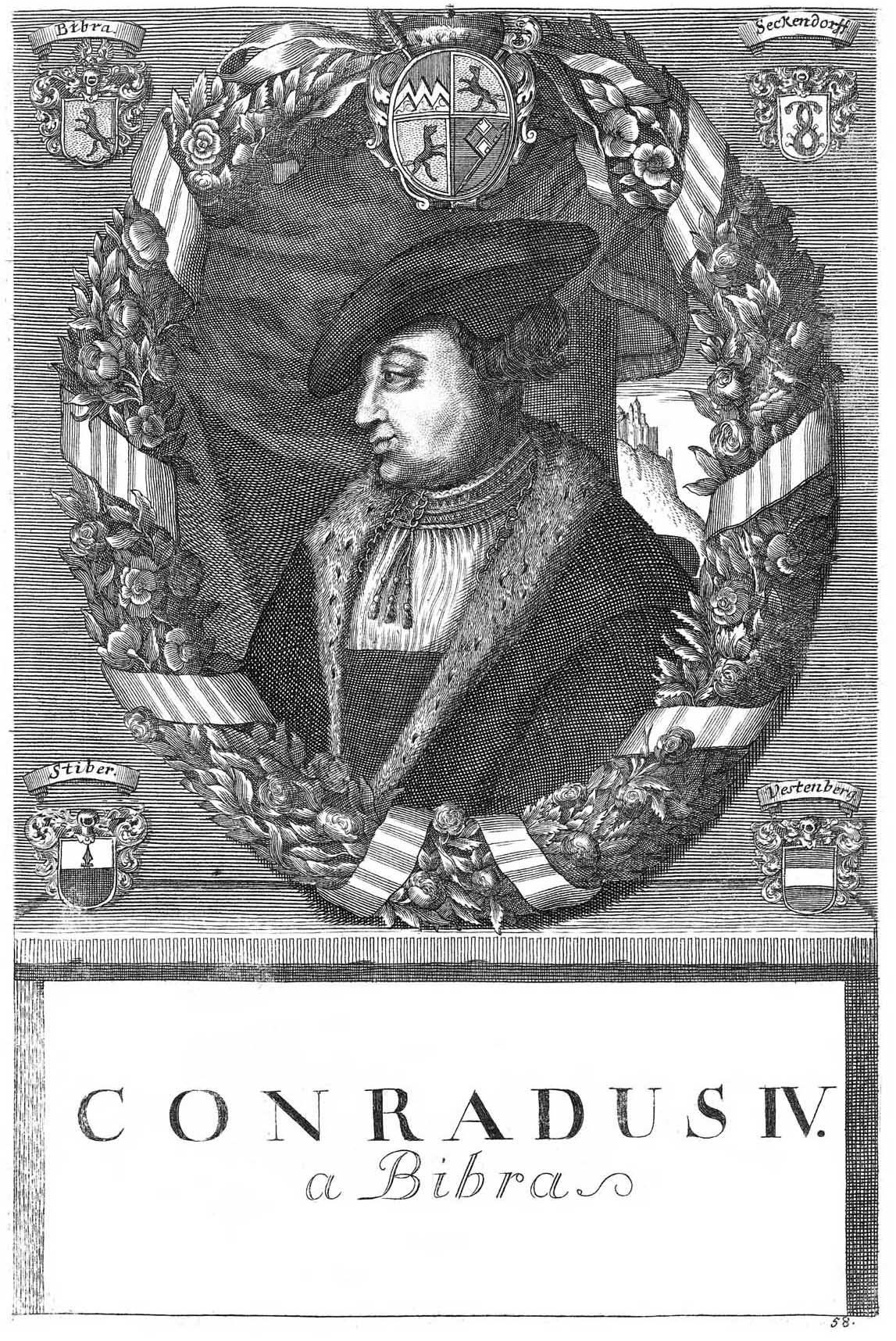 scan of print of Conrad von Bibra, prince-bishop of Wuerzburg 1540-1544, two or three versions with different material around same portrait